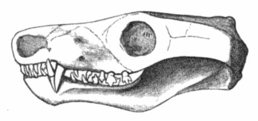 Illustration of the skull of Galesaurus planiceps from A manual of palaeontology for the use of students, with a general introduction on the principles of palaeontology (Vol. II) by Henry Alleyne Nicholson and Richard Lydekker (1889).